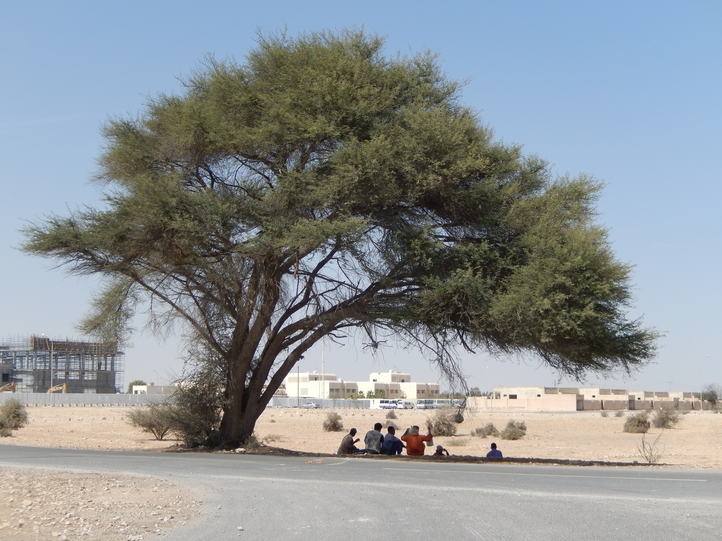 Migrant workers take shelter from the sun under a Samr tree (Acacia tortilis) in the village of Al Ghuwayriyah in northern Qatar. View is toward the north.